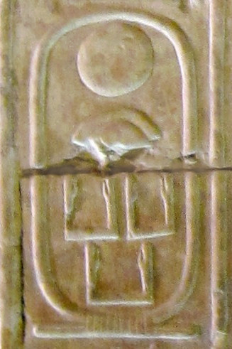 Cartouche 63, Abydos King List. Temple of Seti I, Abydos, Egypt